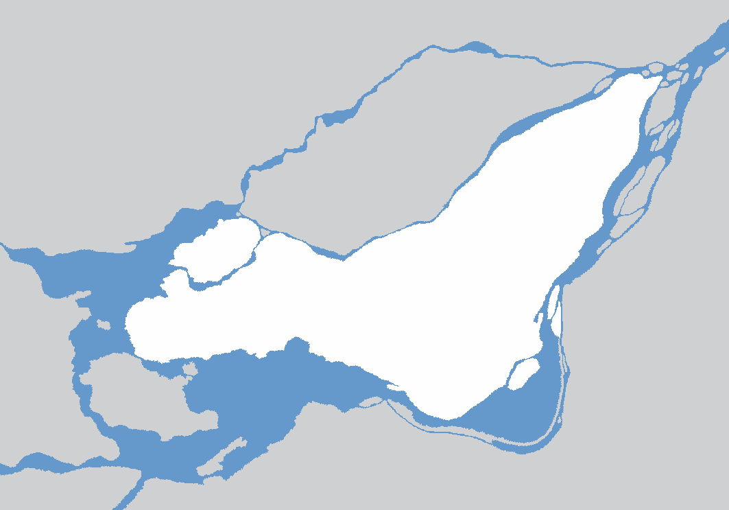 Map of Montreal island